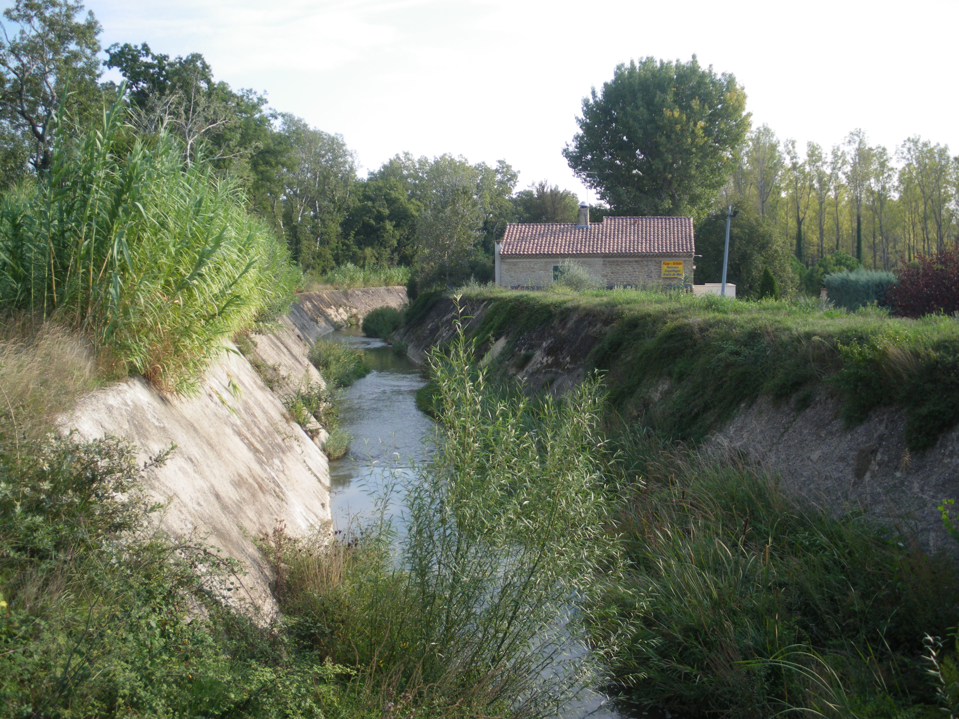 Brégoux River in Vaucluse, France